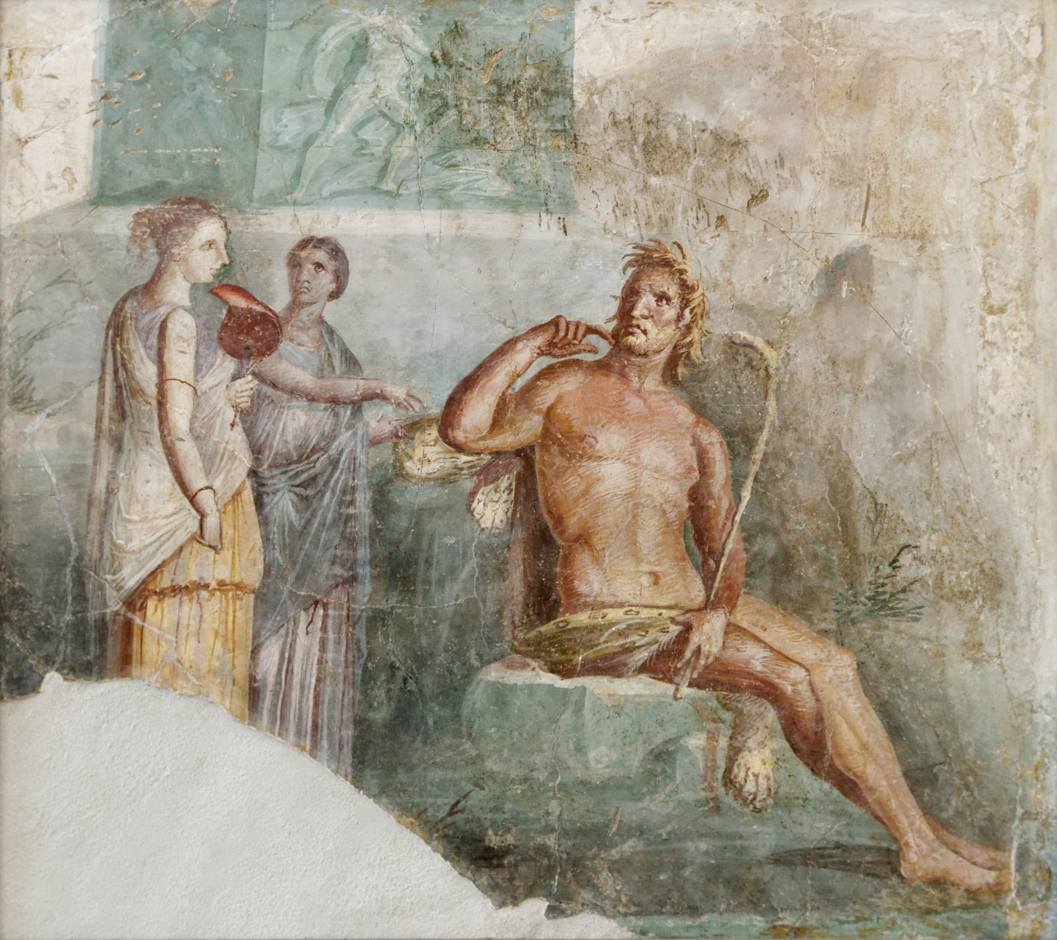 Galatea (holding a fan) meets Polyphemus; a Roman fresco painted in the Pompeian "Fourth Style" (45-79 AD), from Portici, Italy, now housed in the National Archaeological Museum of Naples (inventory no. 8983). For more info see Mario Pagano (1997), "Portici archeologica", L'Erma di Bretschneider, pag. 9 e fig. 37.